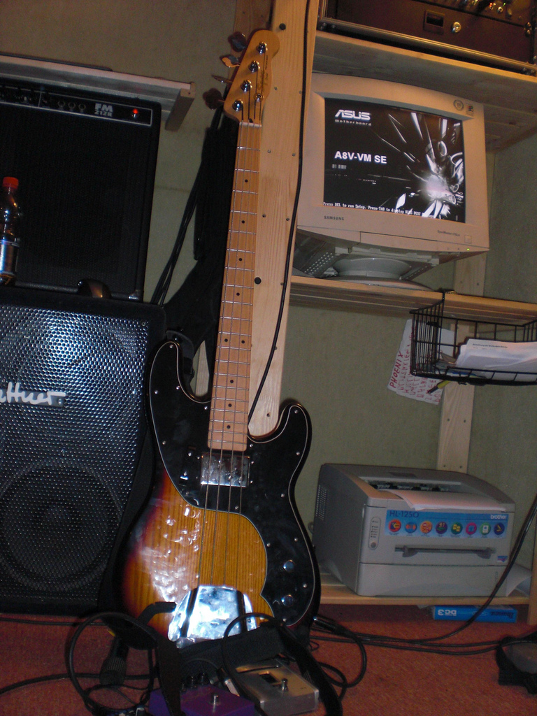 Squier Vintage Modified Precision Bass with maple neck in sunburst finish